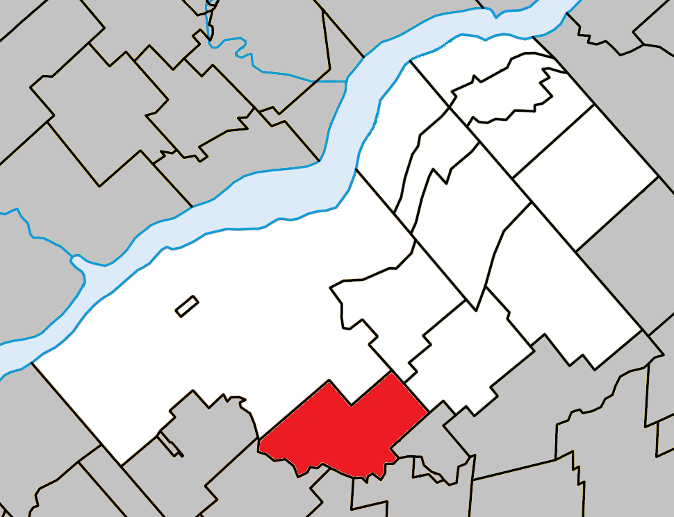 Location of Saint-Sylvère, Quebec within Bécancour Regional County Municipality.